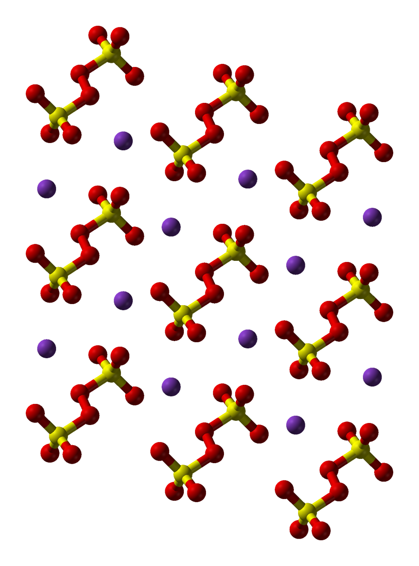 Ball-and-stick model of part of the crystal structure of potassium persulfate, K2[S2O8]. X-ray crystallographic data from Zhurnal Strukturnoi Khimii (1997) 38, 922-929, translated in J. Struct. Chem. (1997), 38, 772-778. Model constructed in CrystalMaker 8.1. Image generated in Accelrys DS Visualizer.